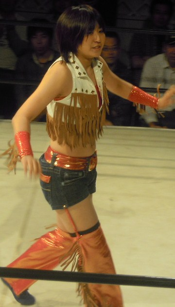 Japanese professional wrestler,Shuu Shibutani. Oct 9 2011 Tokyo Kinema Club.